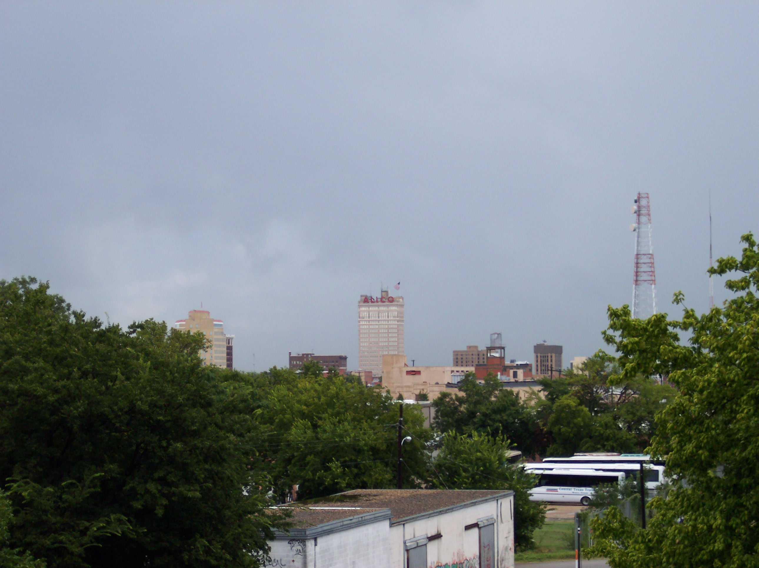 Downtown Waco viewed from the 17th Street bridge.